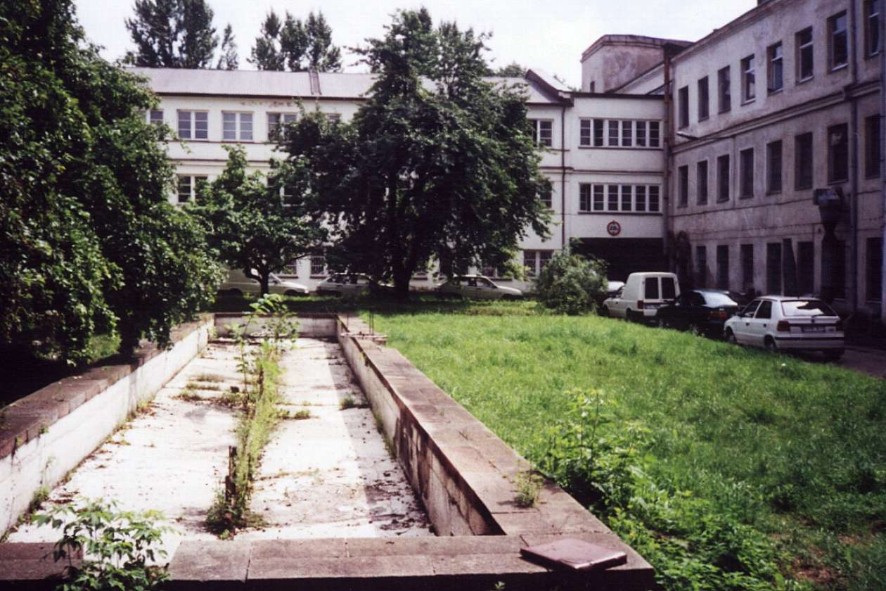 Building of the former Elektrit Radio Company in Vilnius, 2001 view.